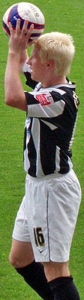 David Perkins. Image cropped from original at flickr.